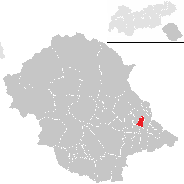 District Lienz